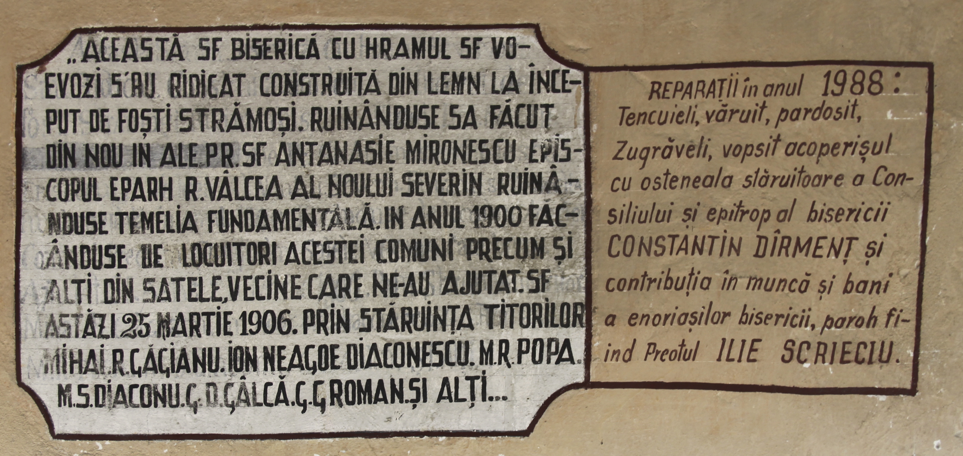 Olteanca-Marineşti, Vâlcea county, Romania: the wooden church.